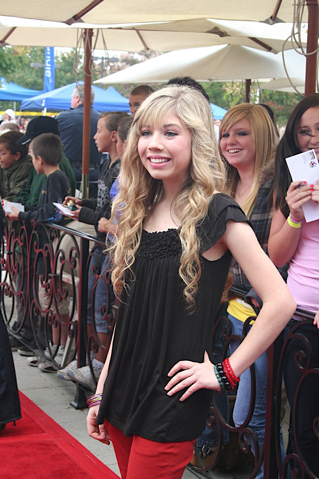 American actress Jennette McCurdy of Nickelodeon's iCarly, on the red carpet at the 62nd Annual Mother Goose Parade in San Diego County. Photograph by Mother Goose Parade / Popular Press Media Group (PPMG) - . For more...